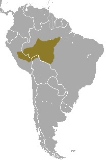 Black-headed Night Monkey (Aotus nigriceps) range